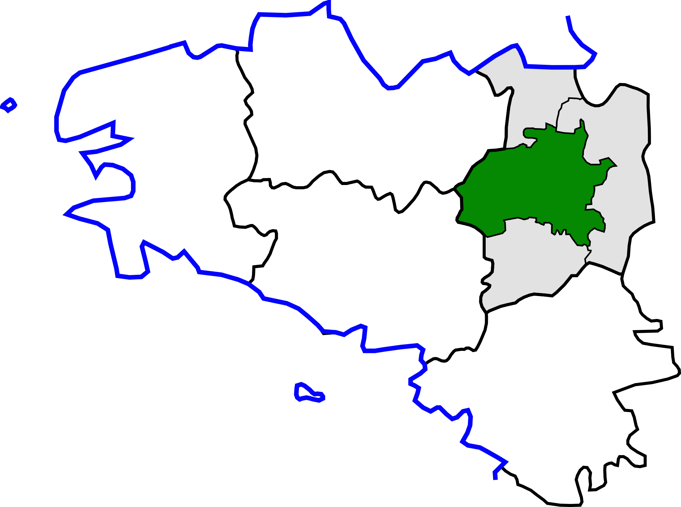 Map for localization of arrondissement of Rennes in Brittany, after the administrative reorganization in October 2010.